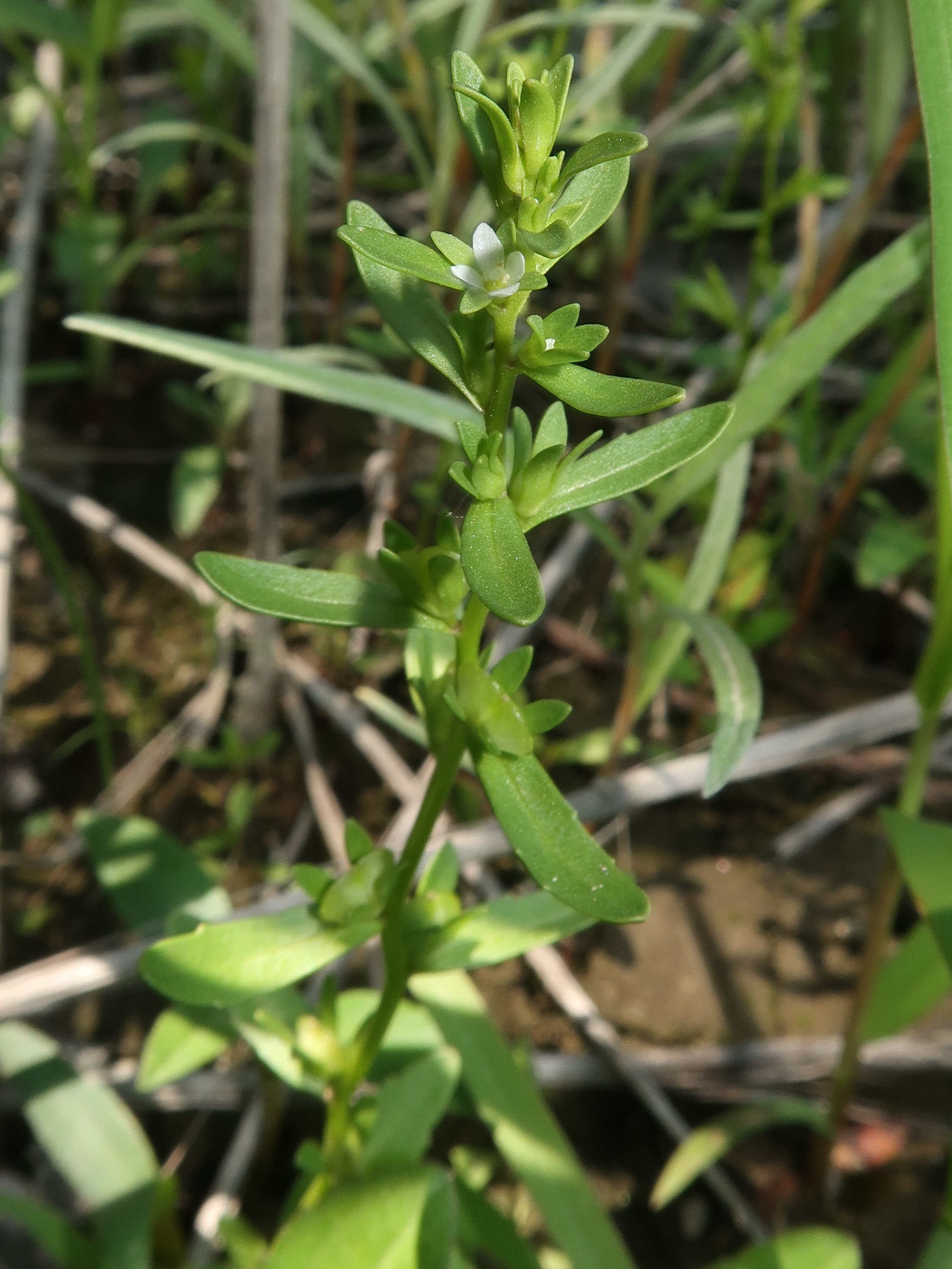 Veronica peregrina, Watarase-yusuichi, Tochigi pref., Japan